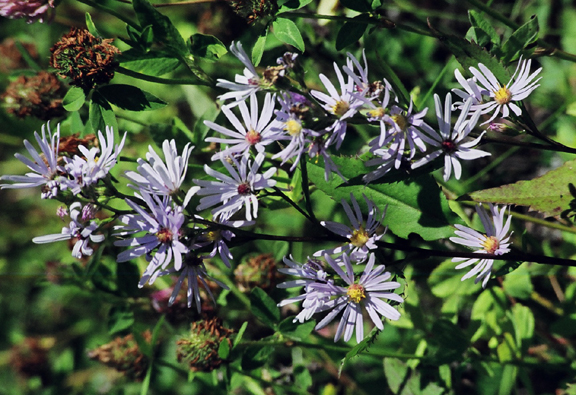 Showy wood aster (Eurybia conspicua) is, as its Latin name implies, a conspicuous addition to the late-summer wildflower population. Its pink-purple coloration and dense blossom growth at the end of a single stalk make it readily noticeable. It blooms from early August through the first killing frosts. Ø2004 D. Windrim Captioned As { }